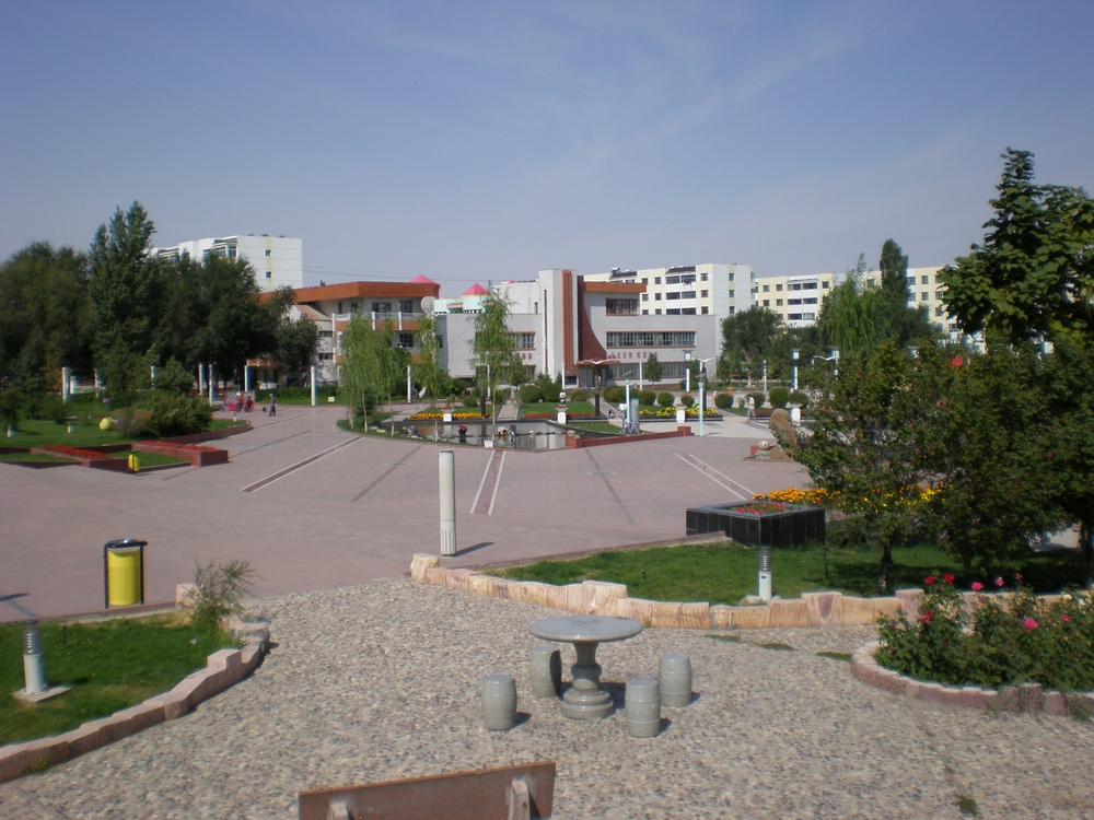 Fukang city, county-level division in Changji Hui Autonomous Prefecture, Xinjiang, PRC